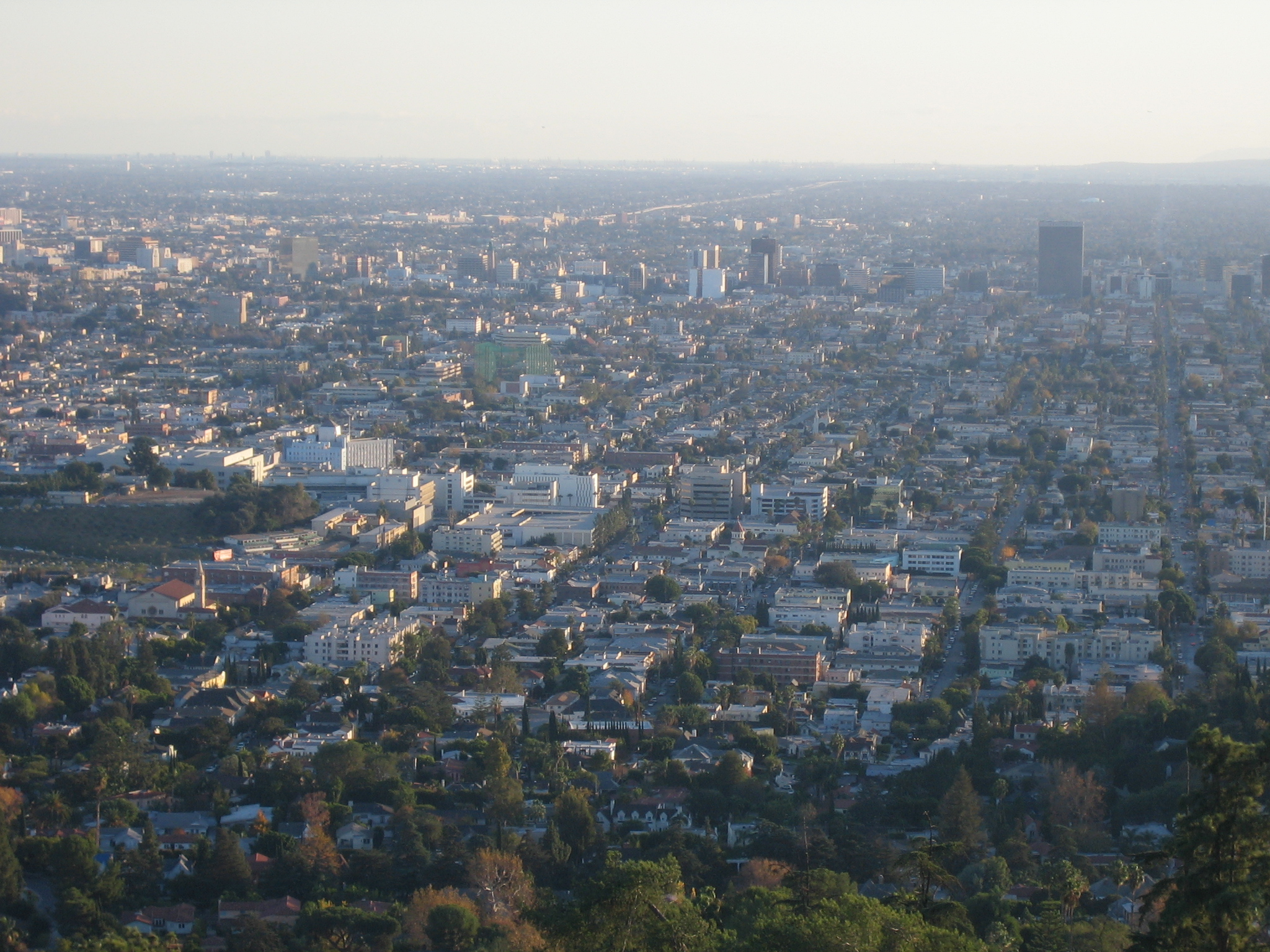 View of the Los Angeles Basin in California from the Griffith Observatory. The Little Armenia neighborhood can be found in the center. Part of Barnsdall Art Gallery can be seen in the far-left middle section; the St. Garabed Armenian Church is in the center; the loading cranes of the Los Angeles-Long Beach seaport can be seen in the distance in the background, as well as Highway 110 that runs from Downtown L.A. to Long Beach in the upper-middle portion of the image.